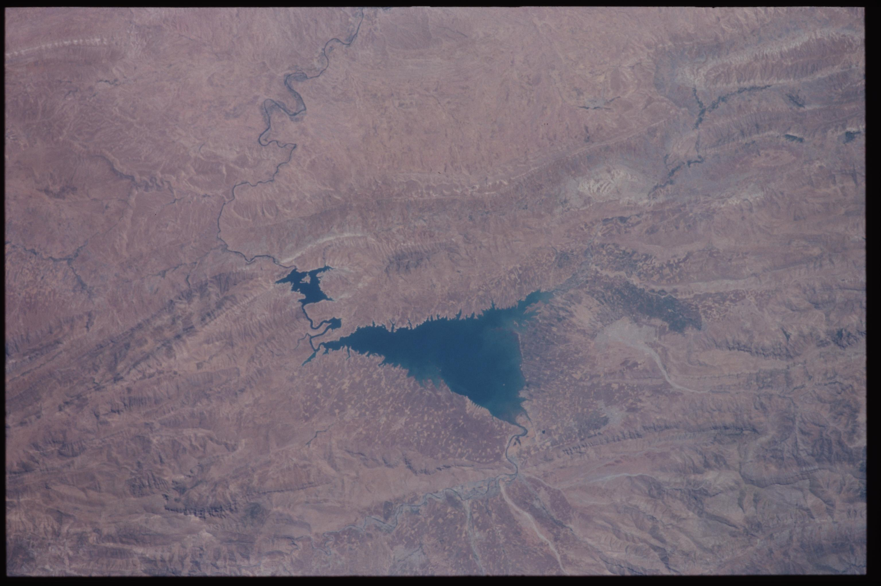 View on DUKAN RESERVOIR, Iraqi Kurdistan, from ISS nadir point.